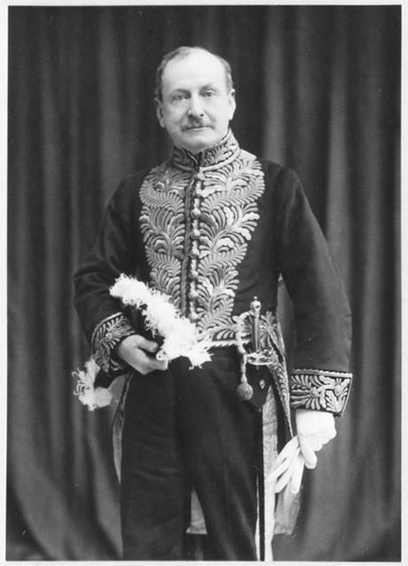 Arthur Irwin Dasent, Clerk of the Journals in the House of Commons from 1919-1921, in military uniform.